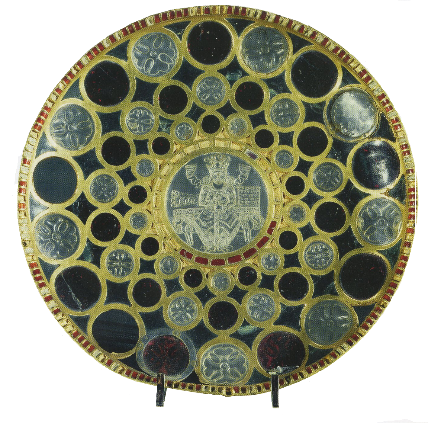 Plate of Khosrau I